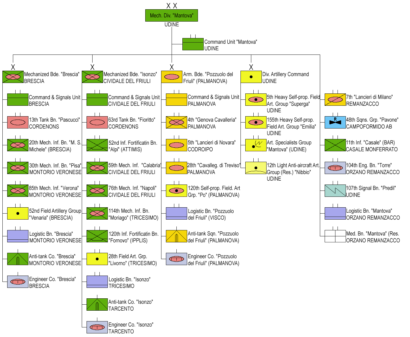 Structure of the Italian Army's Mechanized Division "Mantova" in 1977